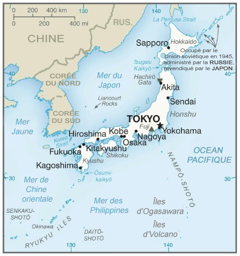 Map in French of Japan